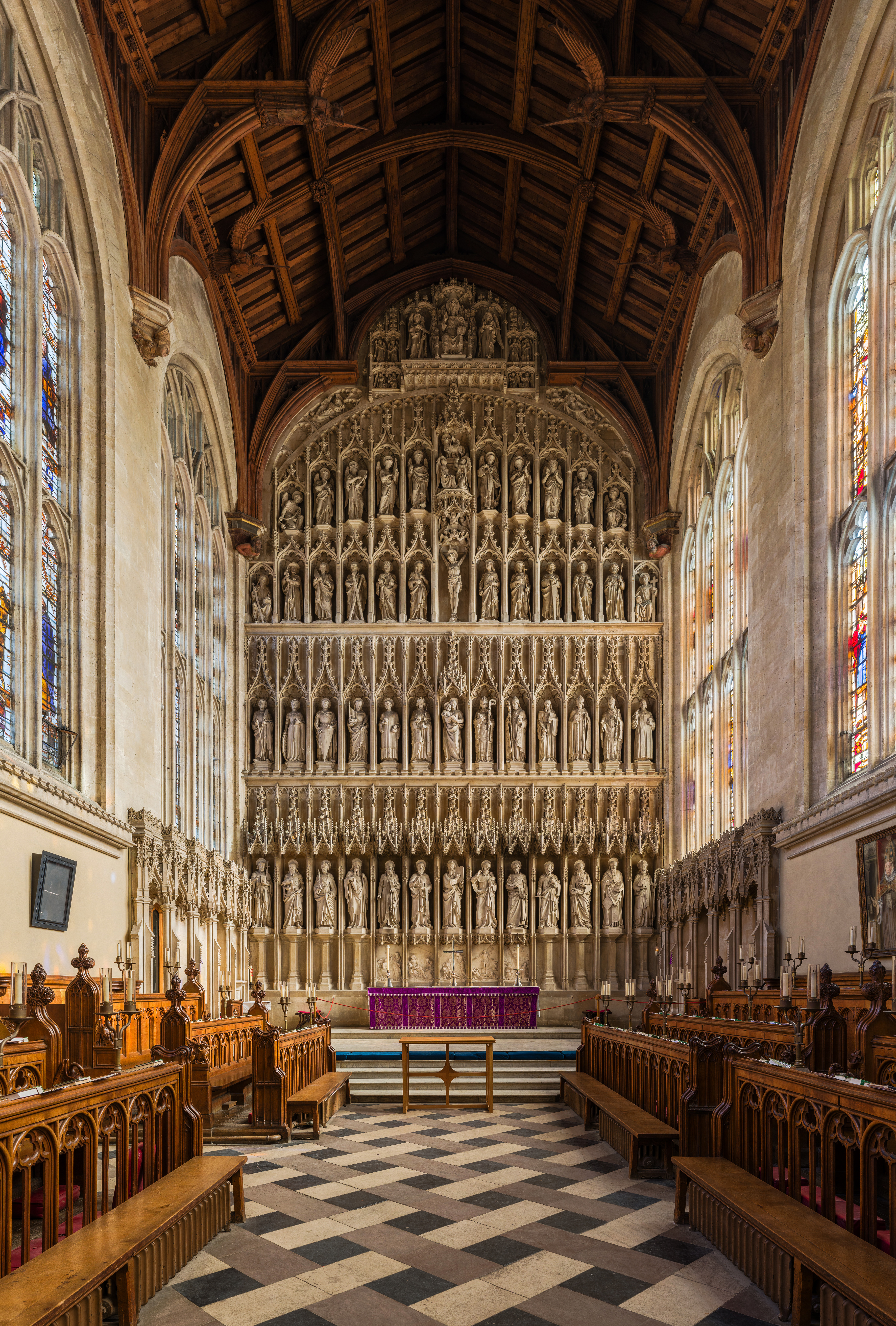 The reredos of New College Chapel looking east, Oxford, England